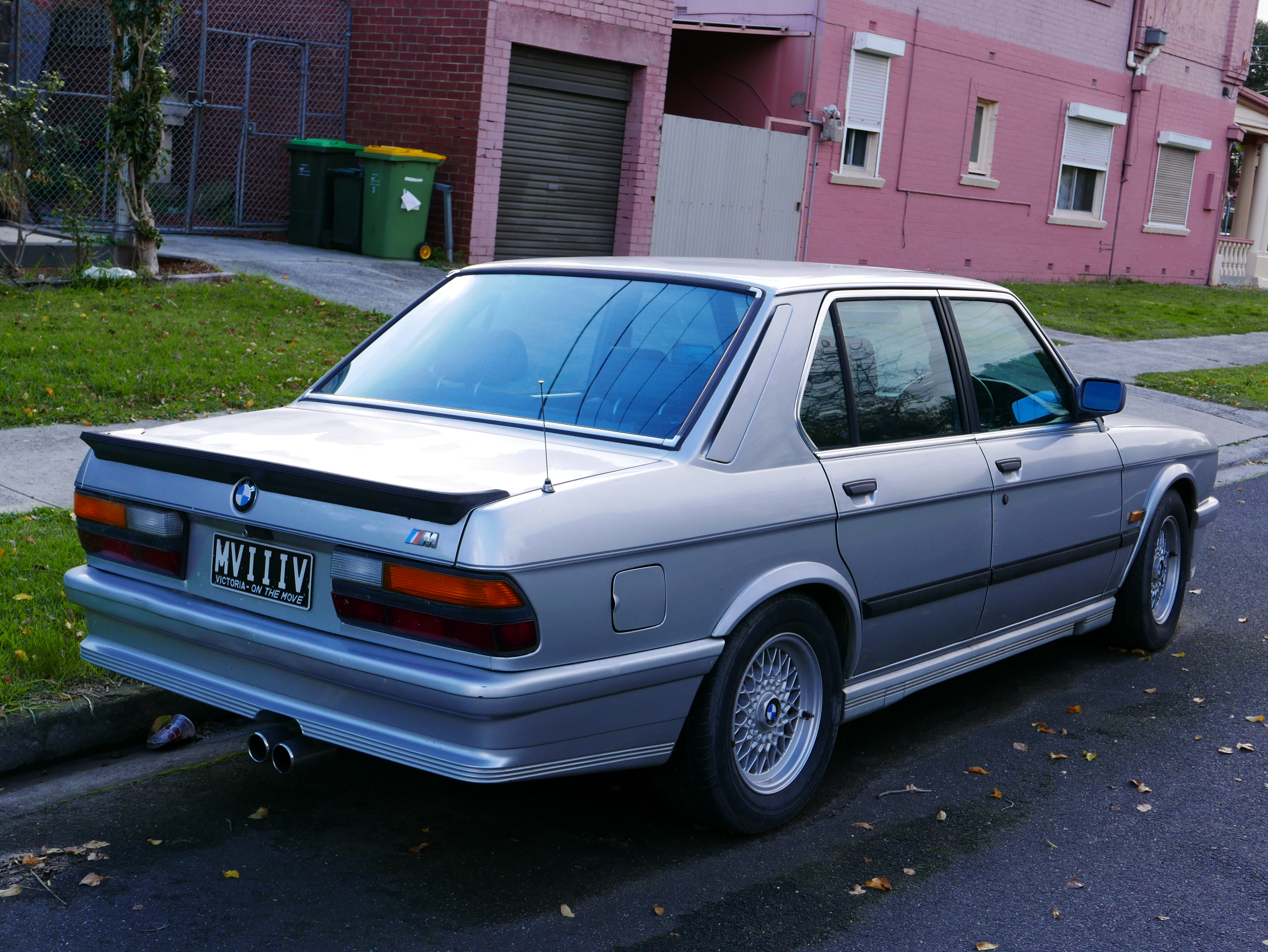 1986 BMW M535i (E28) sedan. Photographed in Northcote, Victoria, Australia. Vehicle registration enquiry results Jurisdiction Victoria Registration MVIIIV Chassis code WBADC520801670115 Engine code 41813382 Compliance date 1986-07 Year of manufacture 1986